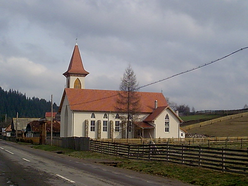 Our Lady of Mount Carmel Church - Komját(Gyimesfelsőlok) /Comiat (Lunca de Sus)